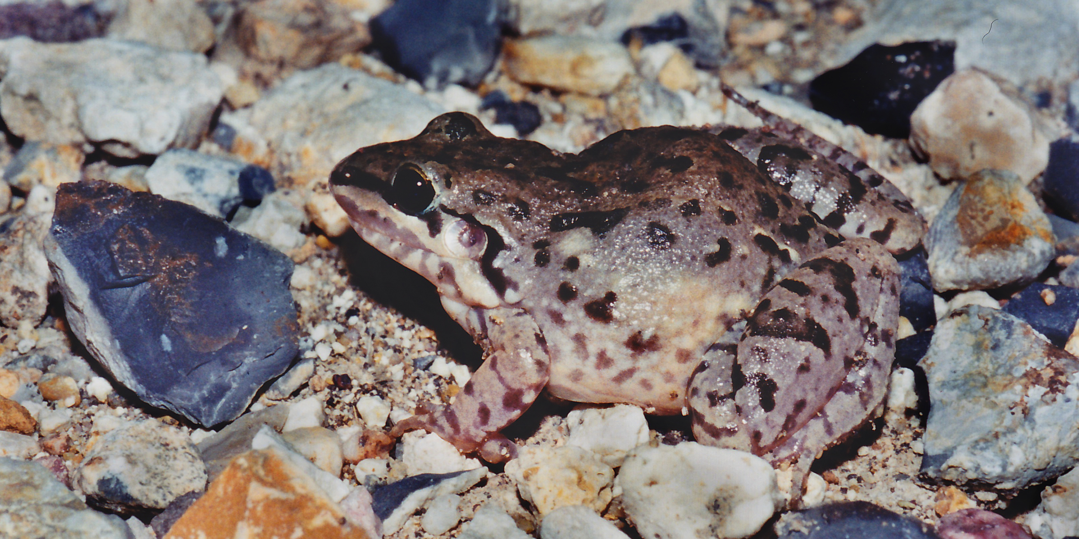 White-lipped Frog (Leptodactylus fragilis) Municipality of Victoria, Tamaulipas, Mexico. Photographed on 12 August 2003 by William L. Farr. This image was originally photographed with film and later scanned from a print.